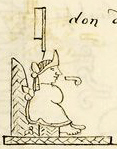 Don Diego de Alvarao Huanitzin, colonial governor of Tenochtitlan, from Historia del Imperio Azteco.